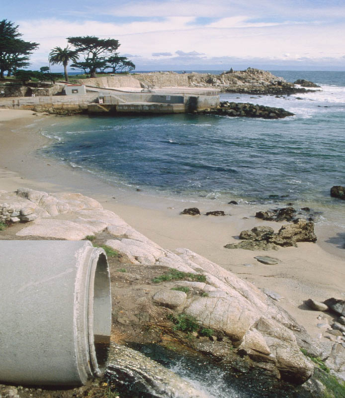 View of urban runoff discharging to coastal waters. (Original text: "Urban runoff or 'storm drain pollution' is one of the leading causes of water pollution in this country."